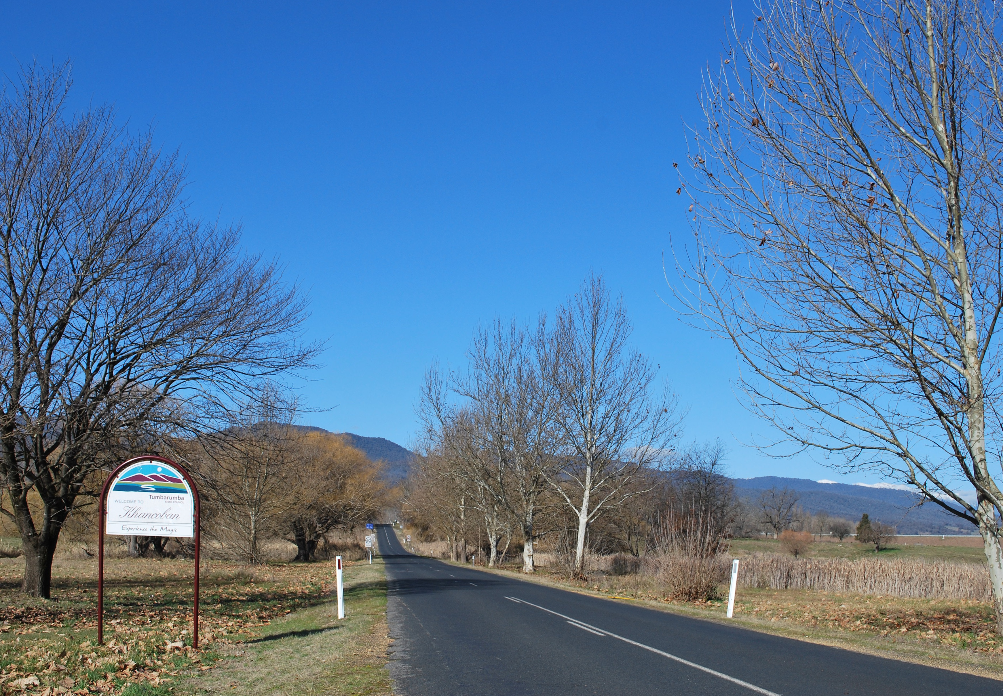 Town entry sign at Khancoban, New South Wales